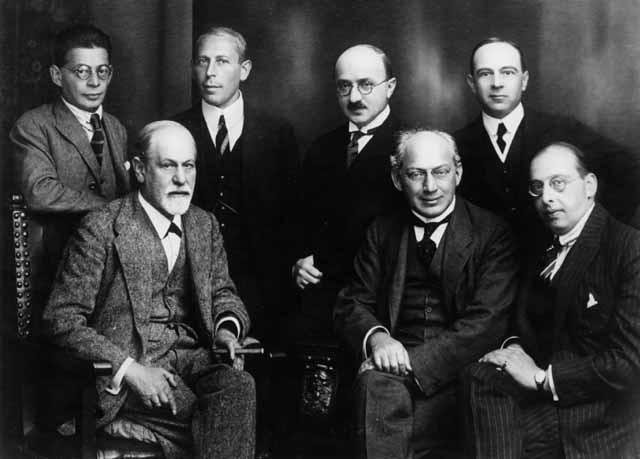 Freud and other psychoanalysts : (left to right seated) Freud, Sàndor Ferenczi, and Hanns Sachs (standing) Otto Rank, Karl Abraham, Max Eitingon, and Ernest Jones